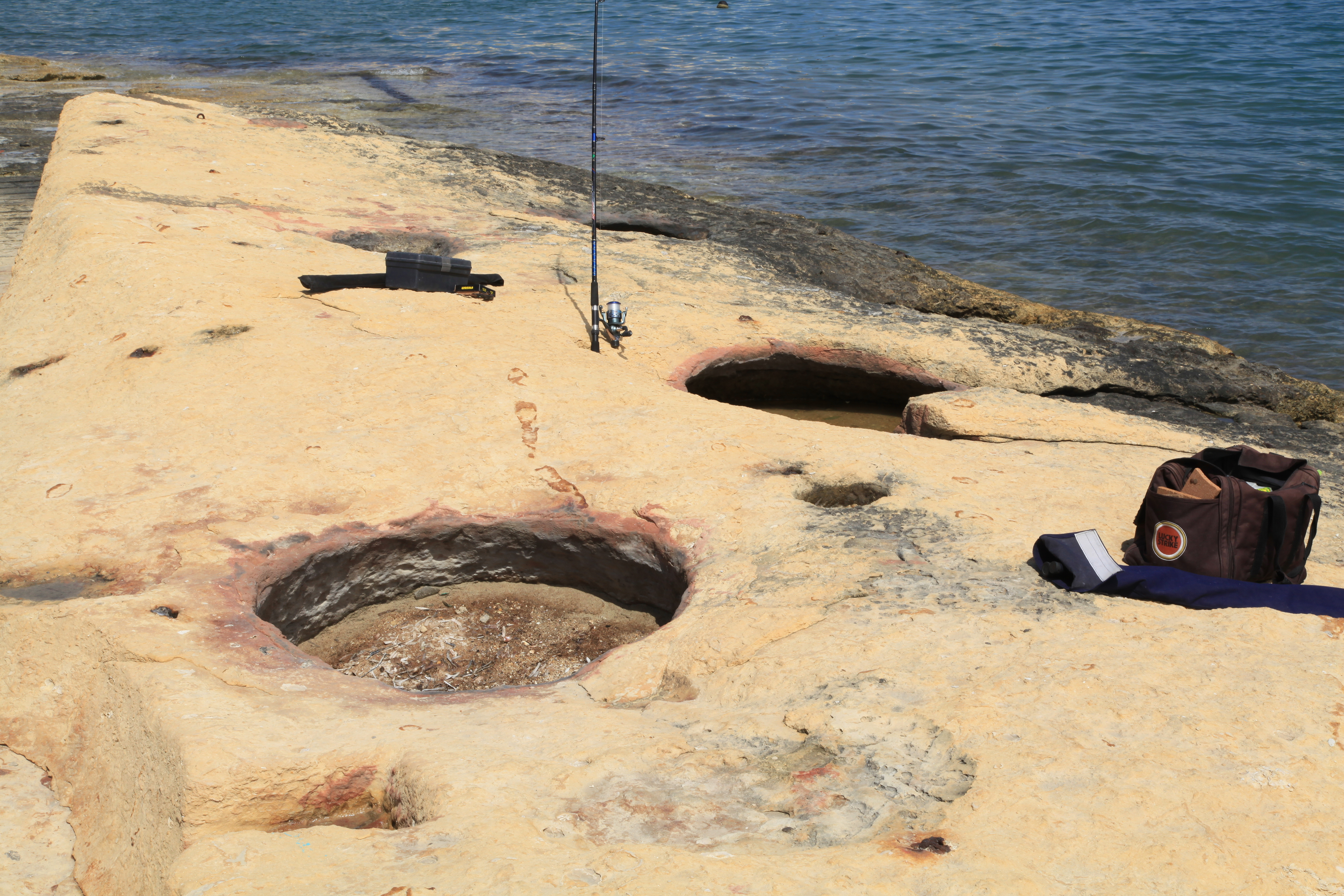 St. George's Bay Silos at Triq Birżebbuġa in Birżebbuġa